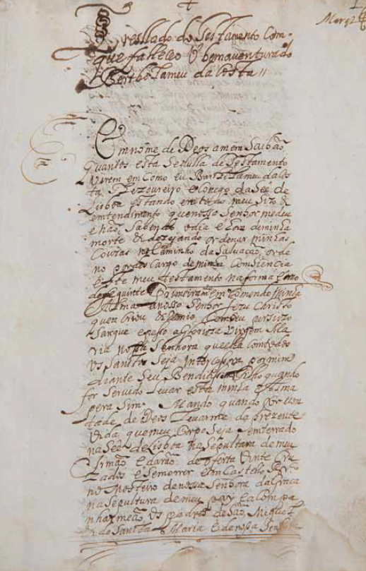 traslado do testamento de Bartolomeu da Costa